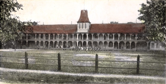 This wooden barracks was built for the East Florida Seminary in 1886.